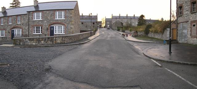 Mill Street, Caledon, near to Caledon and Tynan, Ireland. This is a "restoration village"